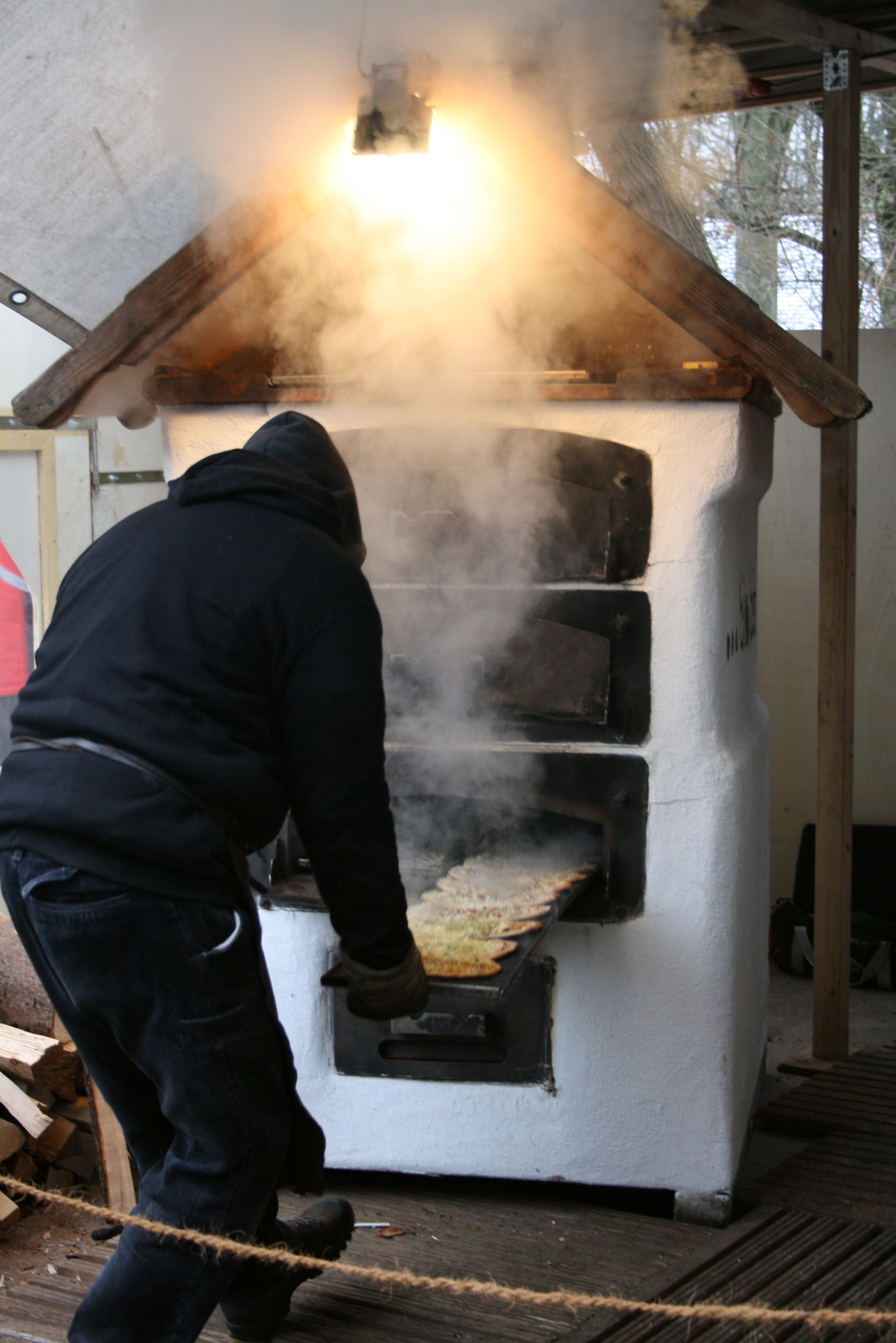 Oven at the Christmas market. Tarte flambée are ready.